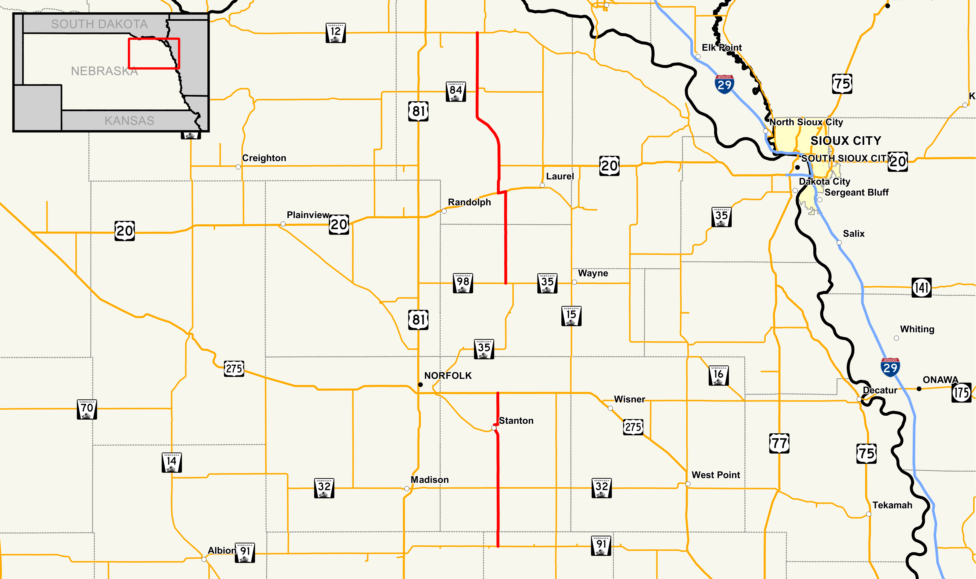 Map of Nebraska Highway 57 Data Sources: Nebraska Highways - - Dec 2016 Nebraska County Boundaries - - Dec 2016 Nebraska City Boundaries - - Dec 2016 This PNG graphic was created with QGIS